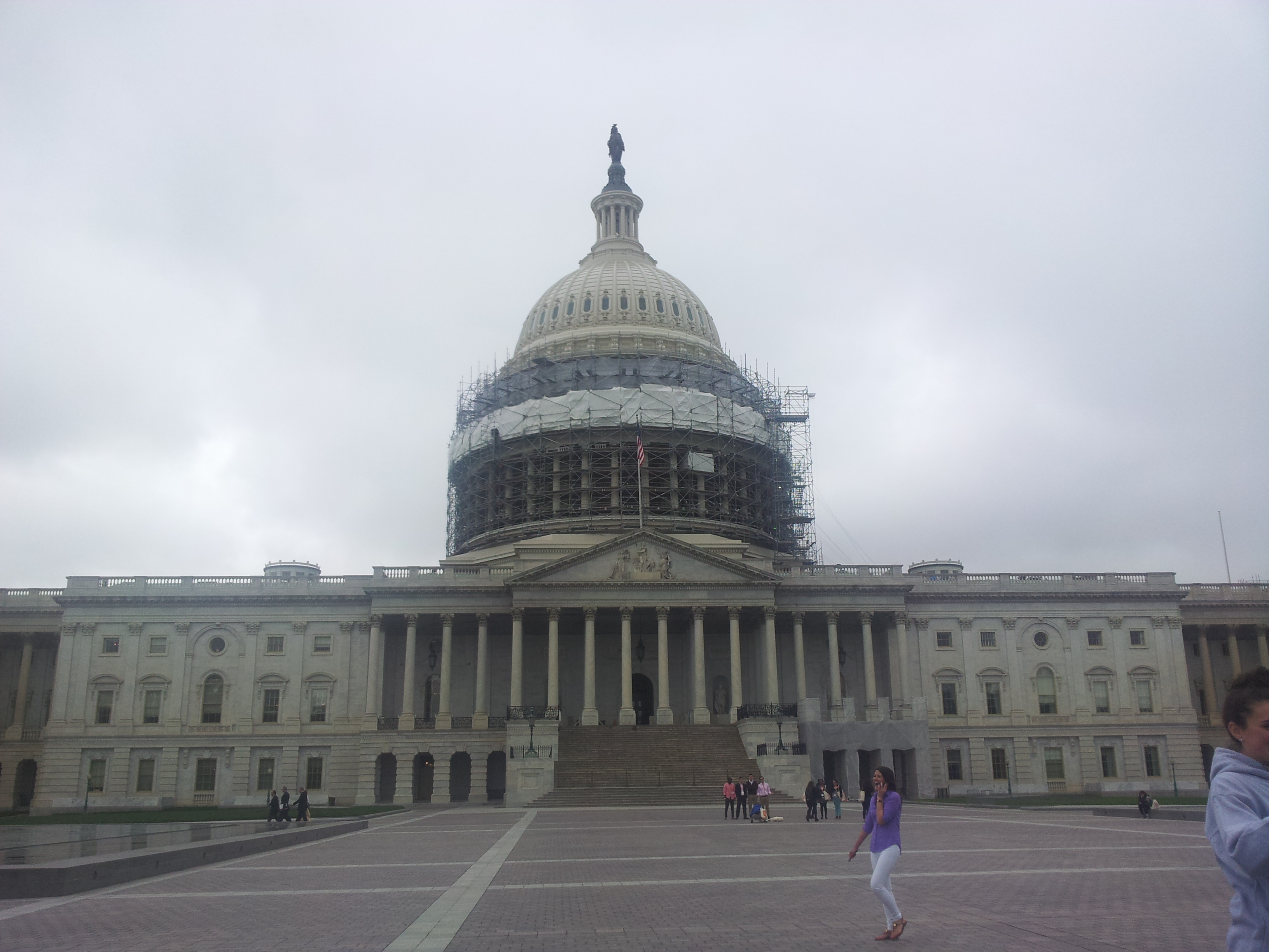 US Capitol rotuna and dome area covered in scaffolding during repairs due to expansion and contraction of material from weather.